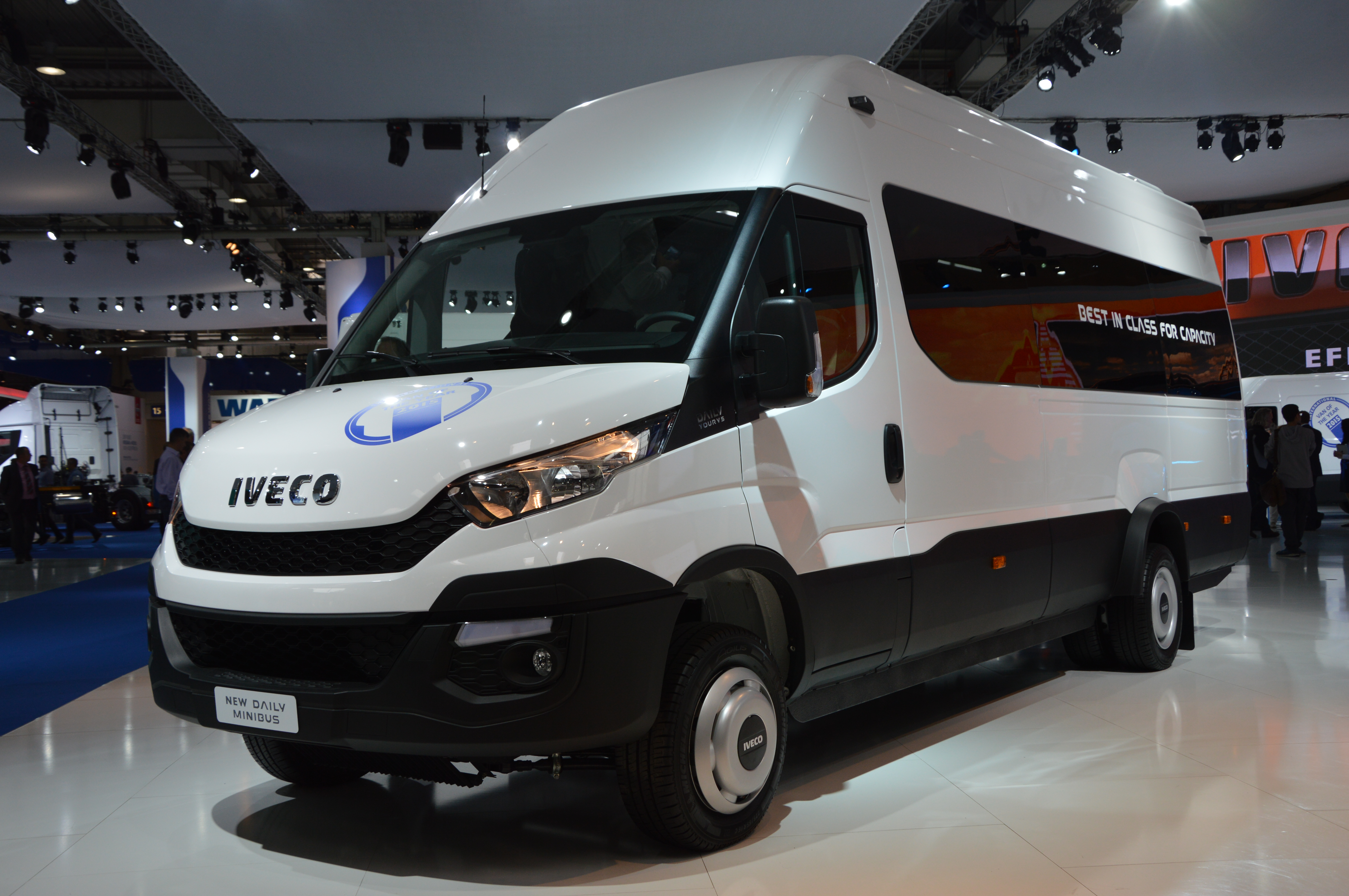 Iveco Daily (sixth generation) Minibus. Photo taken at exhibition IAA 2014 in Hanover, Germany